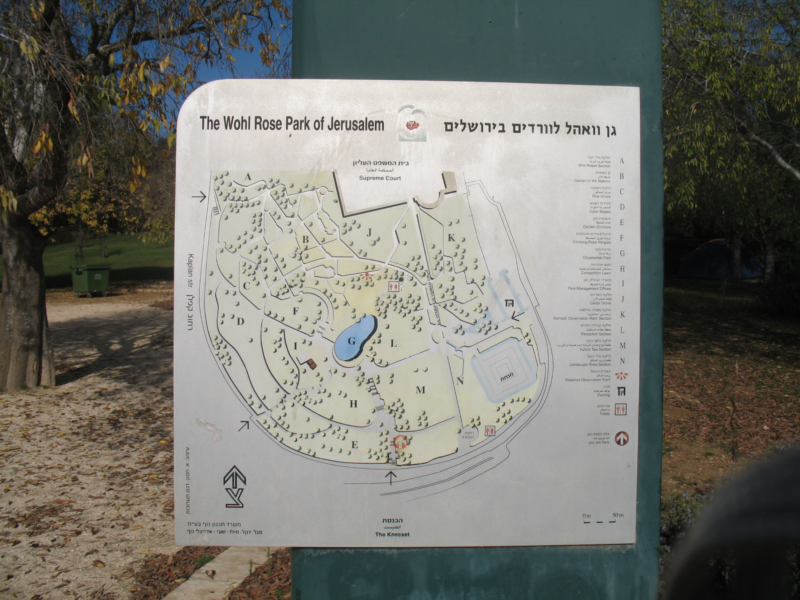 Picture of a map of Wohl rose garden